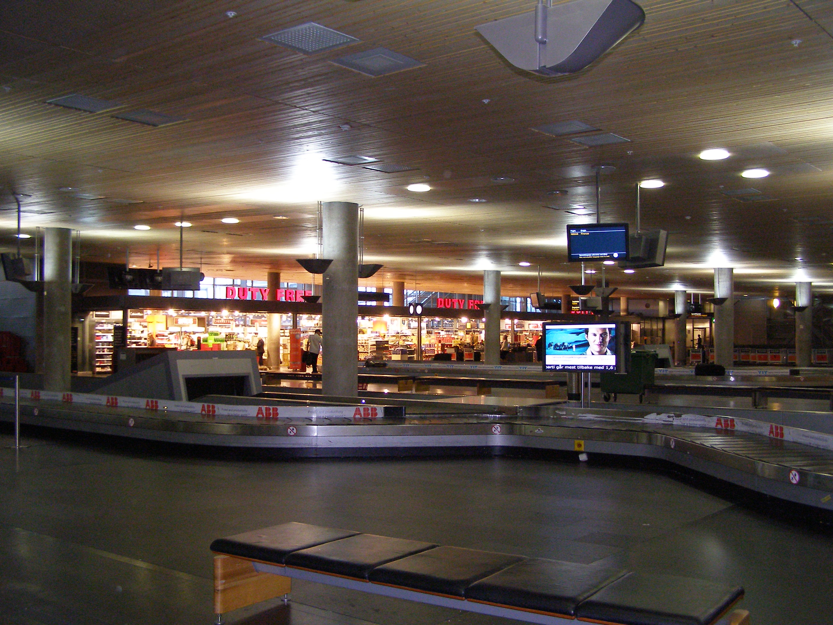 Baggage claim at Oslo Airport, Gardermoen.